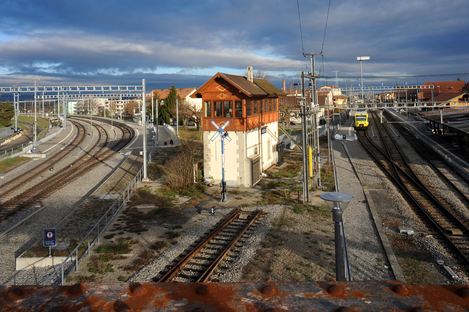 Historical signal box in Kerzers; Fribourg, Switzerland. Left the rail track direction Neuchâtel right direction Lyss.